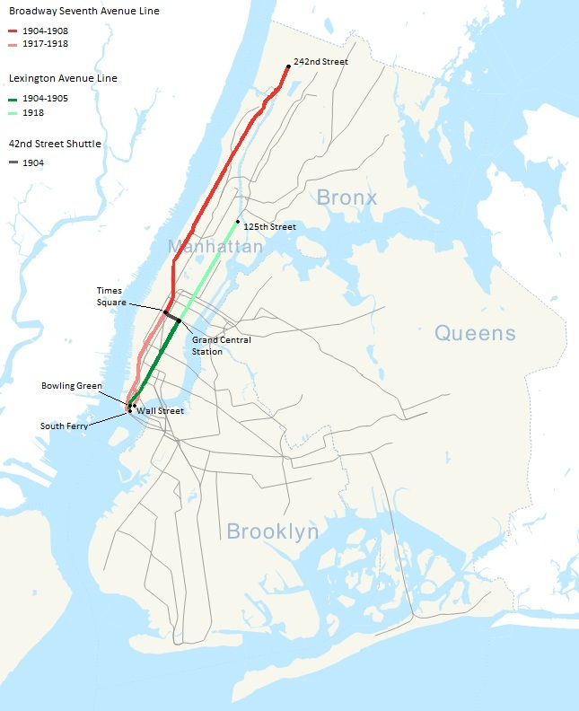 Map showing the New York City Subway's "H System" that was implemented on August 1, 1918 (as part of the network if the Interborough Rapid transit Company). The map shows lines from the IRT Broadway-Seventh Avenue Line (in red) and of the IRT Lexington Avenue Line (in green). The IRT 42nd Street Shuttle is in grey, and corresponds to the horizontal bar of the "H". End stations are also mentioned. Originally, only dark red and dark green sections were completed between 1904 and 1908. Light red and light green sections were subsequently added and were put into service on August 1, 1918, thus joining the two halves of the Broadway – Seventh Avenue Line.